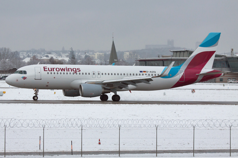 Eurowings A320 at Stuttgart Airport (STR)